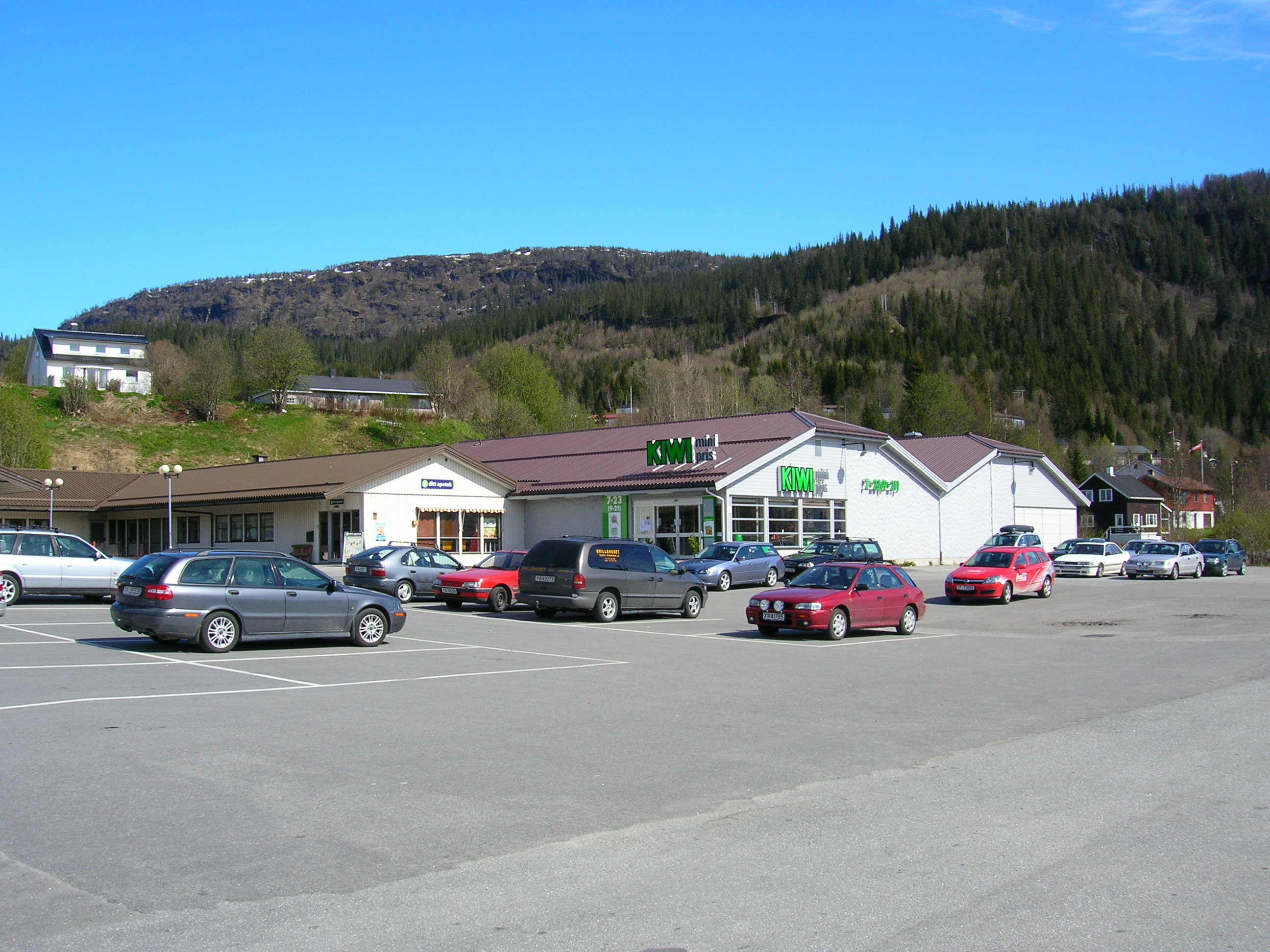 KIWI mini pris grocery store and «Ditt apotek» (pharmacy) on the left side, Ytteren, Rana municipality, county of Nordland, Norway, Photo 18 May, 2007 with a Nikon Coolpix 5600 5,1 Megapixel camera.